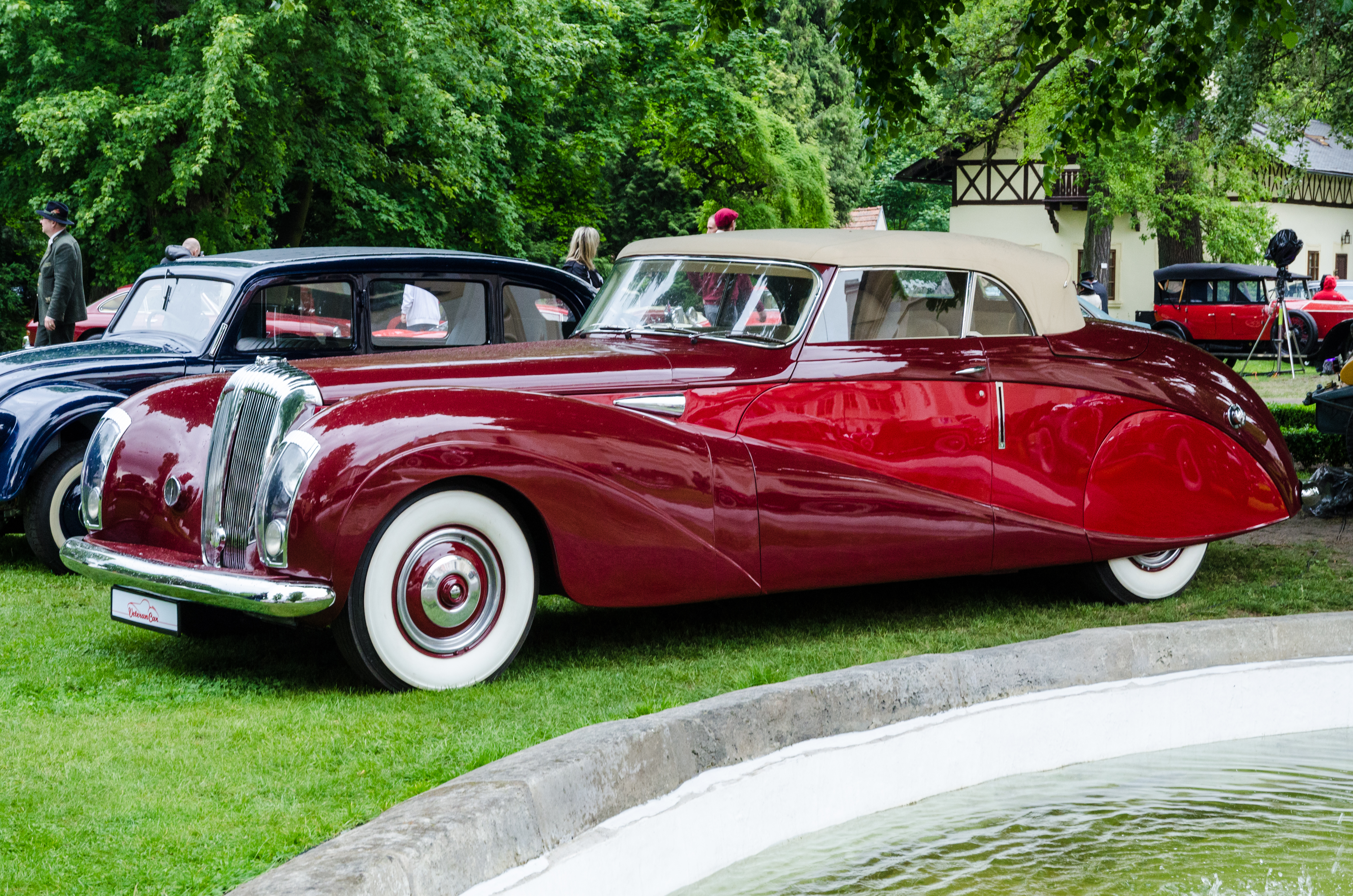 Daimler Straight-Eight DE 36 "Green Goddess" drop-head coupé by Hooper (1949) 20 feet or 6 metres long and 6ft 5ins or 2 metres wideEngine: 5½-litre, 150 bhp (110 kW; 150 PS) @3,600 rpmDriver and two passengers in front, two extremely luxurious folding armchairs behind positioned to see between the front passengersThe first of these cars was painted jade green with beige upholstery hence the name Green Goddess Electro-hydraulically operated head (US top) folded under a power operated metal cover forward of the boot. The windows were electrically operated. One of a few DE 36, originally made for the last Egyptian king (who was overthrown before the the car was finished).